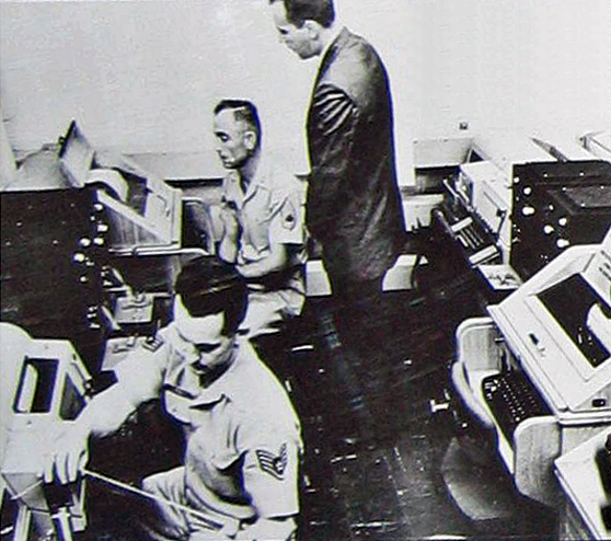 Terminal of the Washington-Moscow Hotline in the WHCA-communications center under the East Wing of the White House. With Teletype Corp. Model 28 ASR and Siemens T63 SU12 teletype equipment, each connected to an ETCRRM II encryption device.